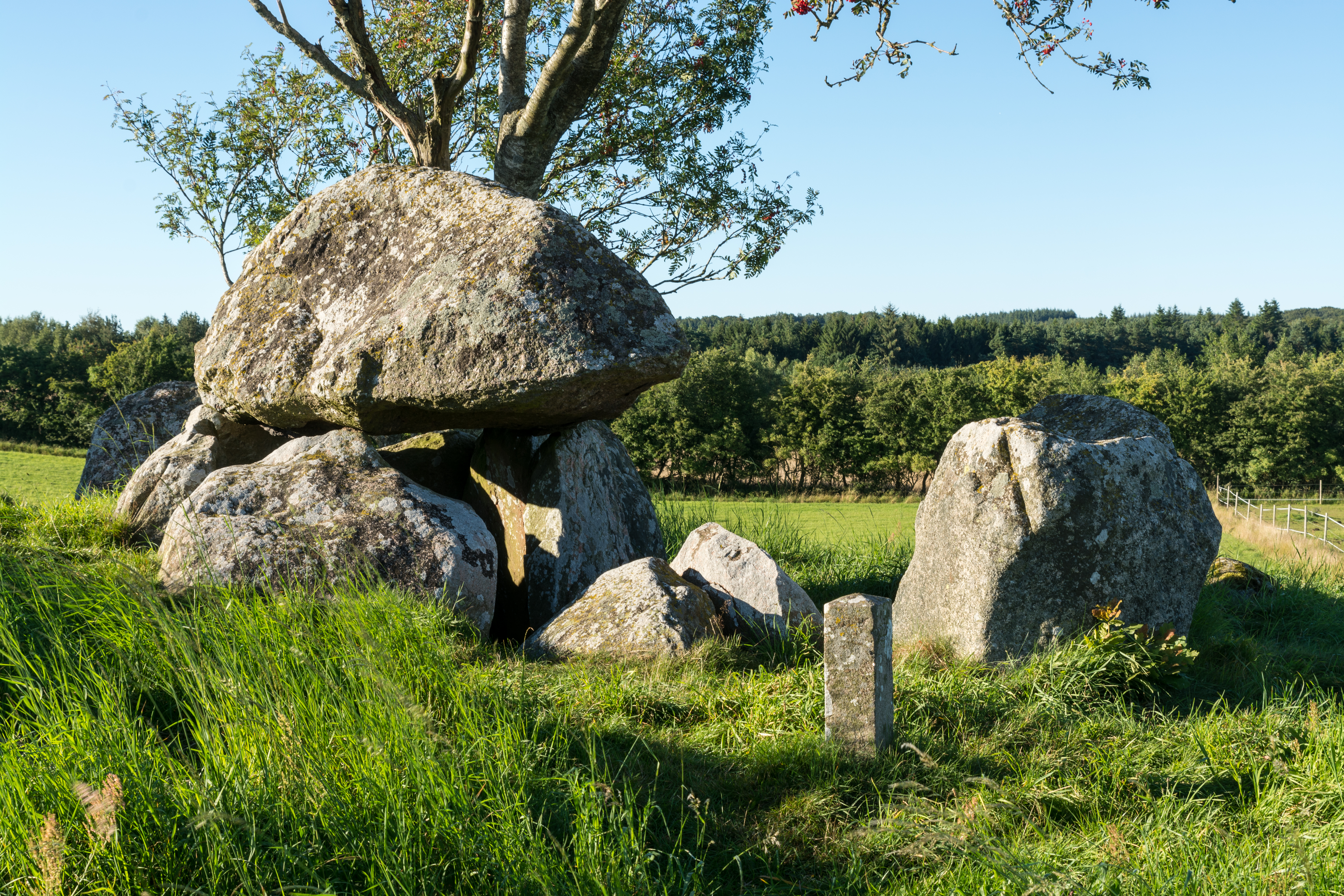 Tumulus 50 kroners Dyssen near Stenvad (Norddjurs Kommune).